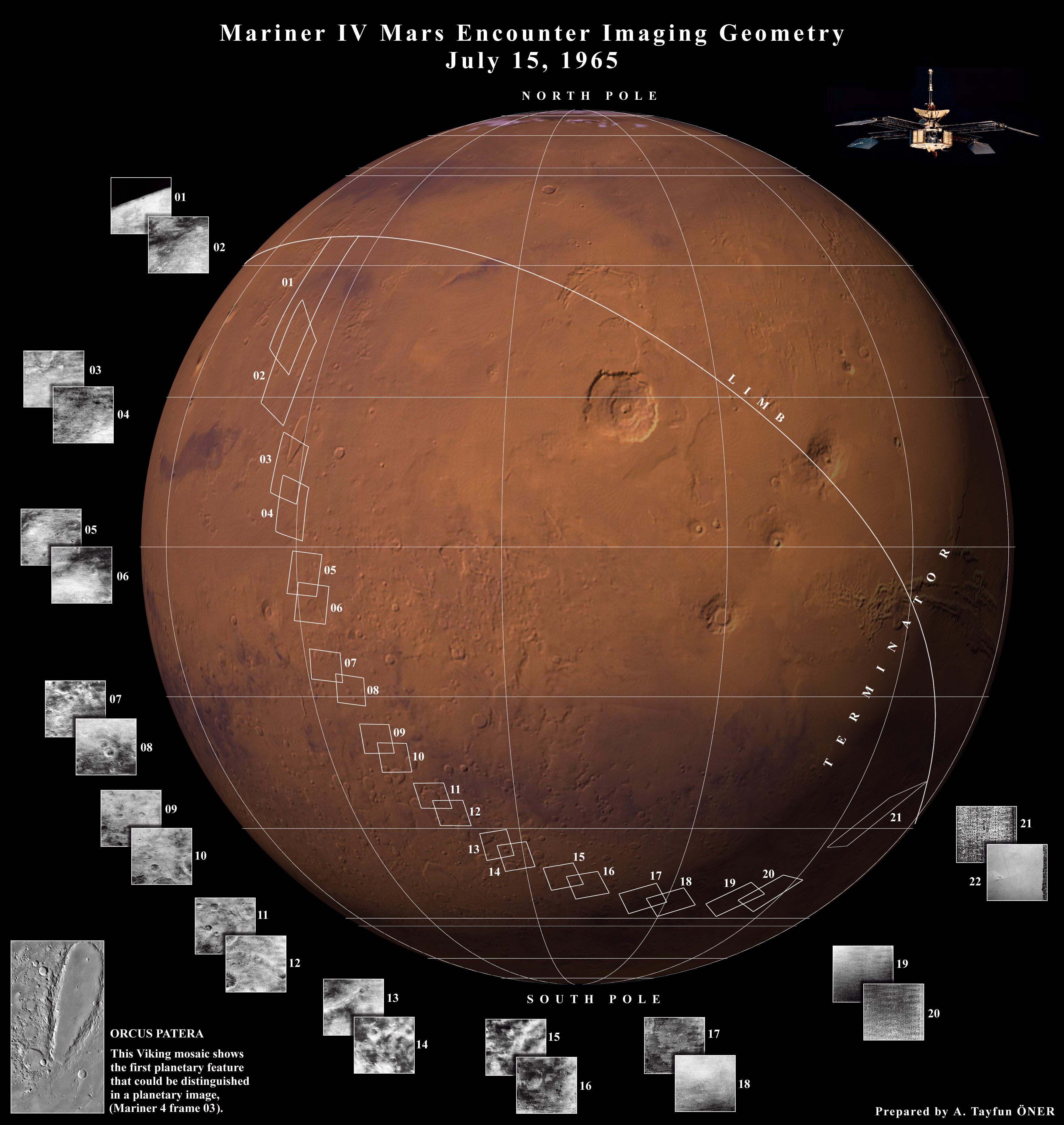 Compilation of Mariner 4 pictures on Mars map.